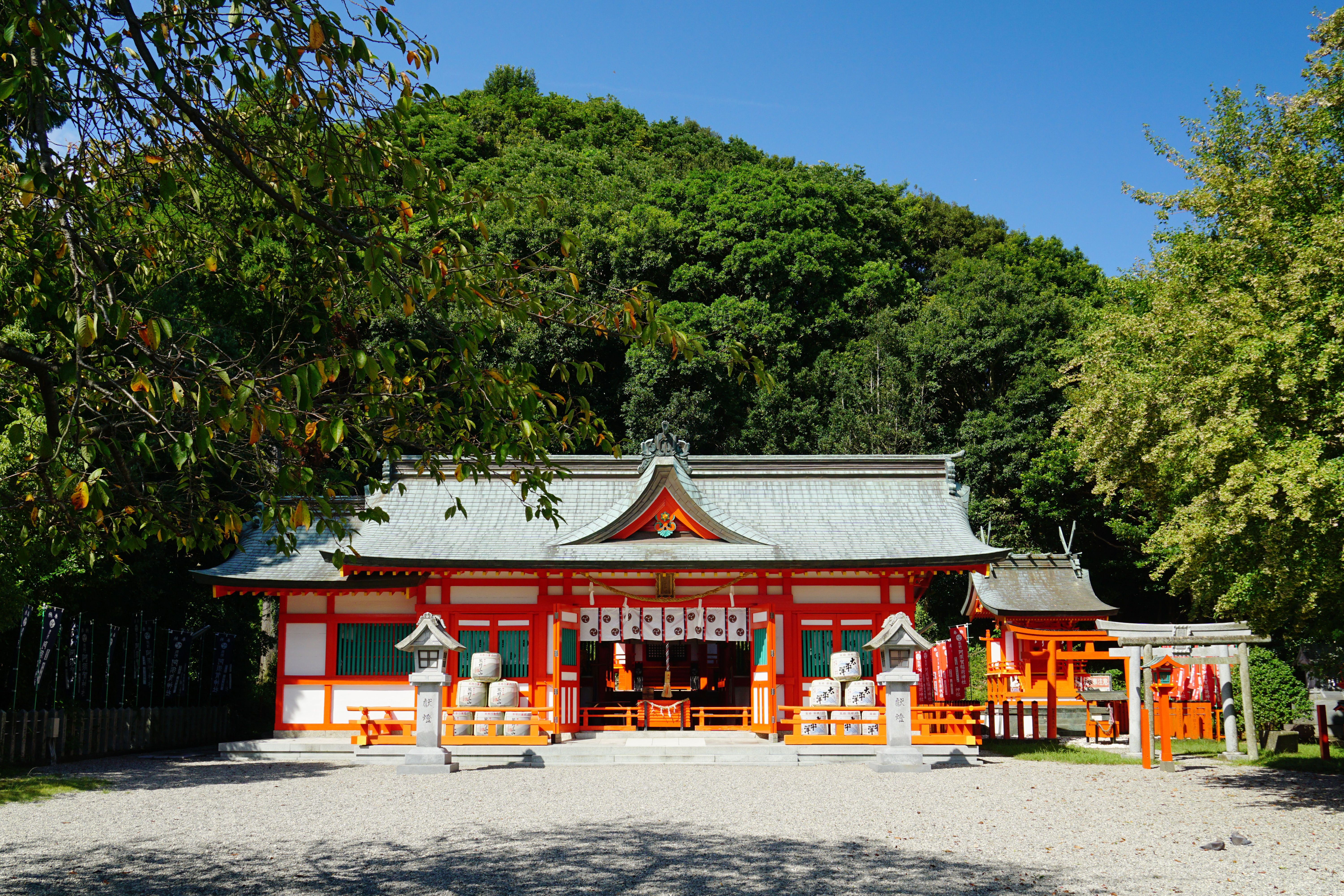 Asuka-jinja in Shingū, Wakayama prefecture, Japan